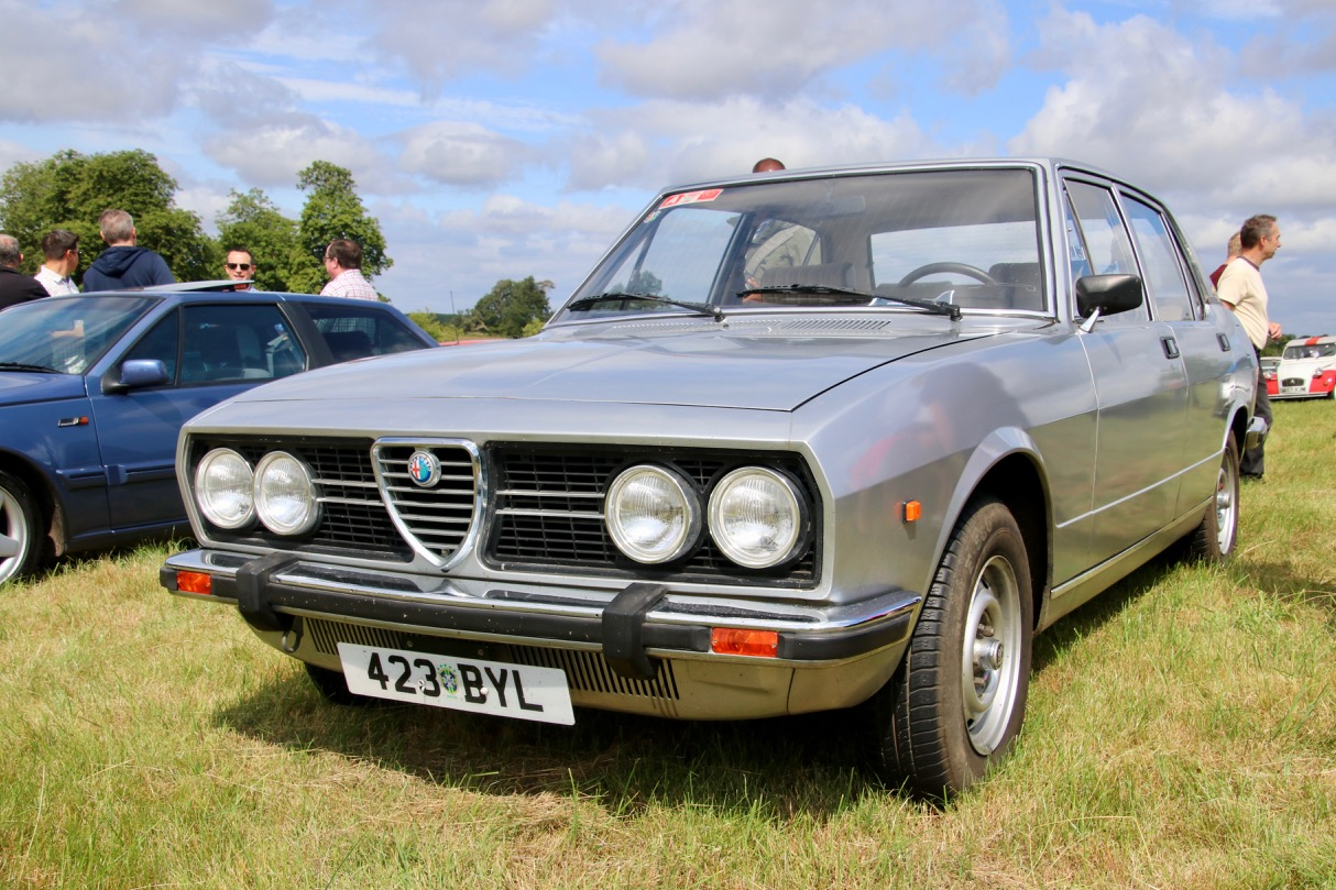 Alfa Romeo 2300 Rio taken at the 2019 Festival of the Unexceptional in Claydon House, Buckinghamshire